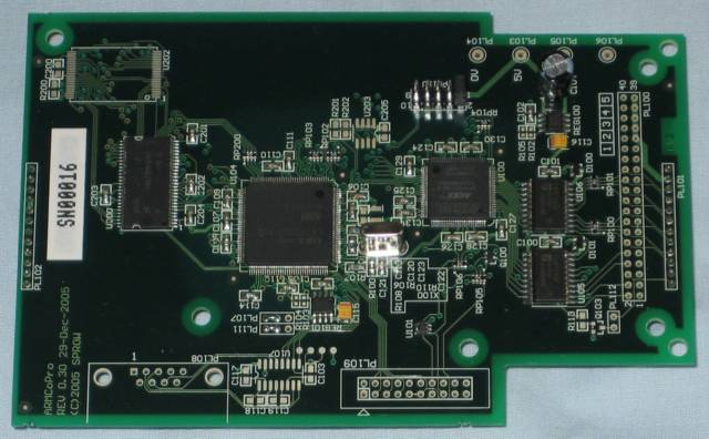 Sprow ARM7 Coprocessor (top).The ARM7 coprocessor can be used with the BBC Micro as an external coprossor aor as an internal coprocessor for the Master. It has a 64MHz ARM7 with 16MB memory and runs BASIC V. The board comes with the following features: ARM7TDMI processor at 64MHz 8kbyte unified cache to speed program execution For internal use within a Master series or external use with the entire BBC microcomputer family 16Mbyte high speed SDRAM 512kbyte on board flash ROM (containing system software and BASIC) Expandable to up to 64Mbyte RAM and 4Mbyte flash ROM (external) Optional serial EEPROM for parameter storage Optional RS232 port for debugging use I have decided to upgrade a Master 128 to the ultimate specification so I couldn't resist buying an ARM7 coprocessor, the fastest coprocessor for the BBC and Master.